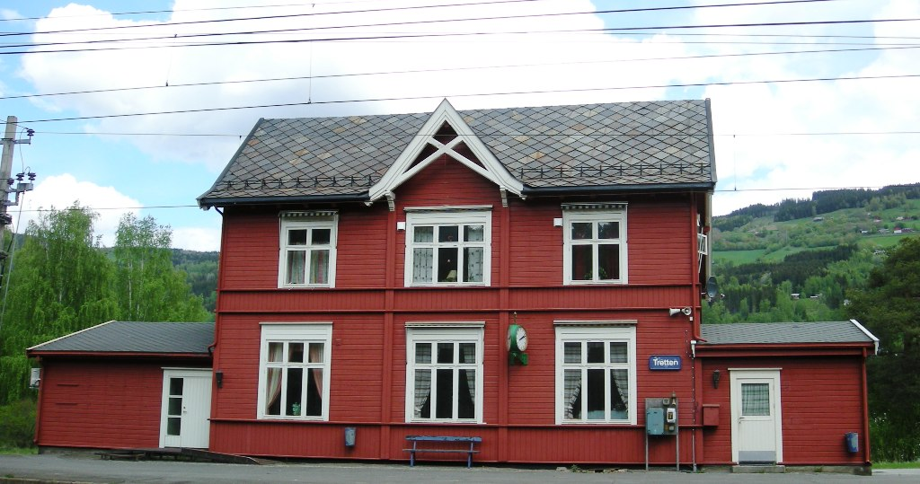 Tretten station on the Dovre line